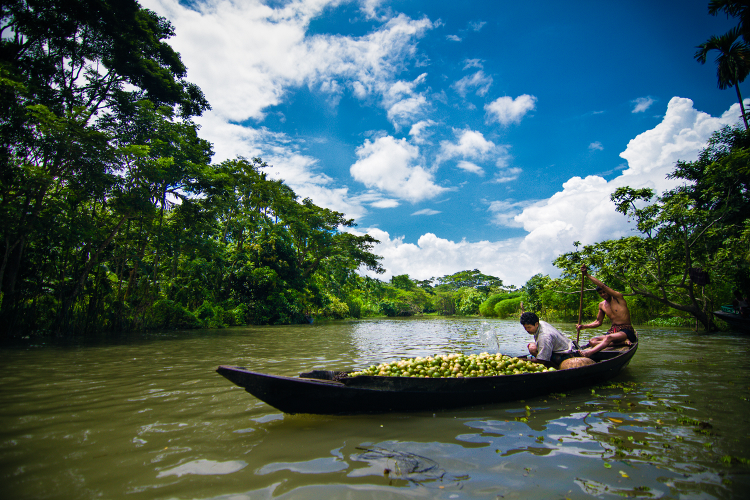 Farmers use Kuriana canal in Pirojpur to get to floating markets with their boats loaded with guava. they sell their guava in this floating market.